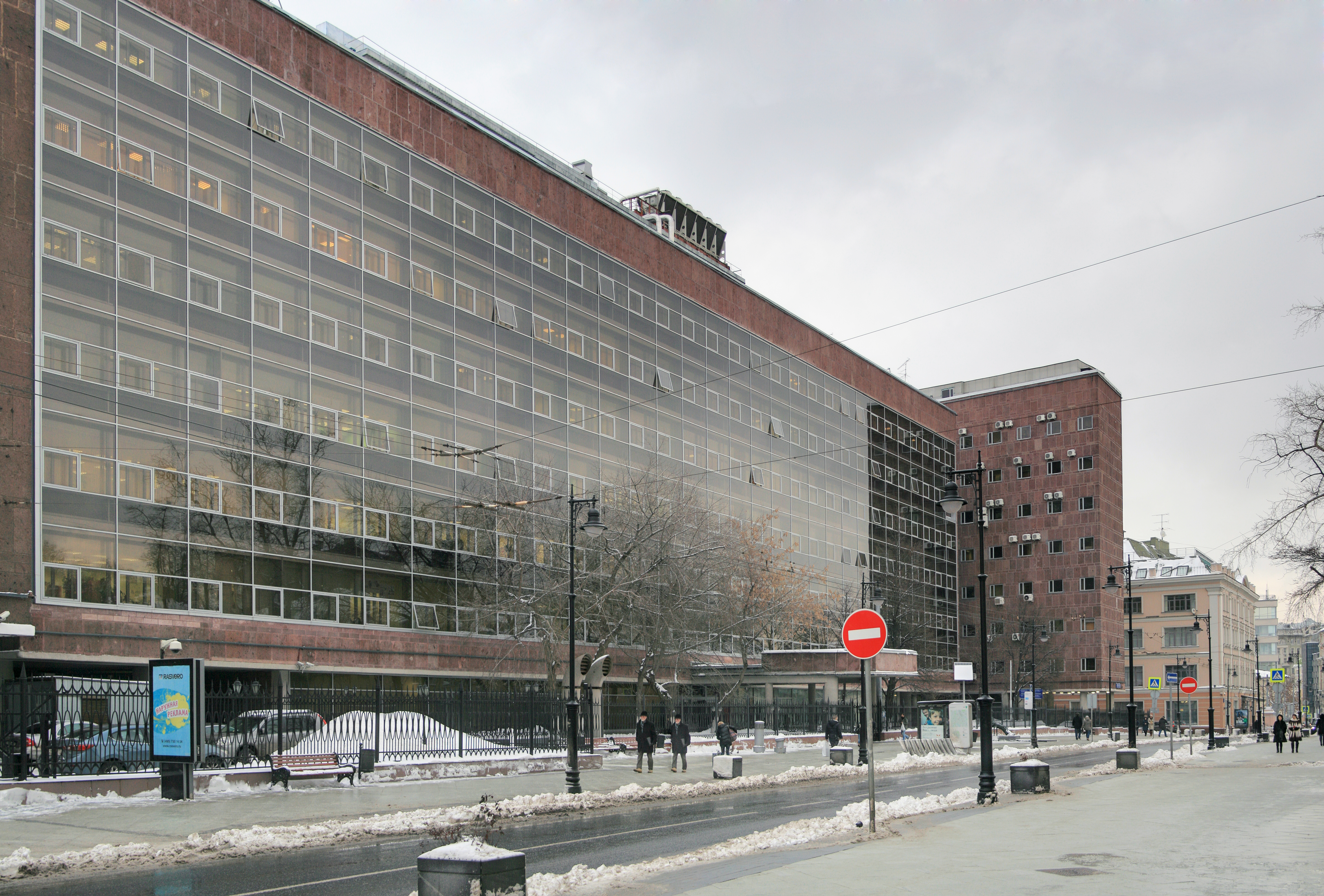 Tsentrosoyuz building, Moscow